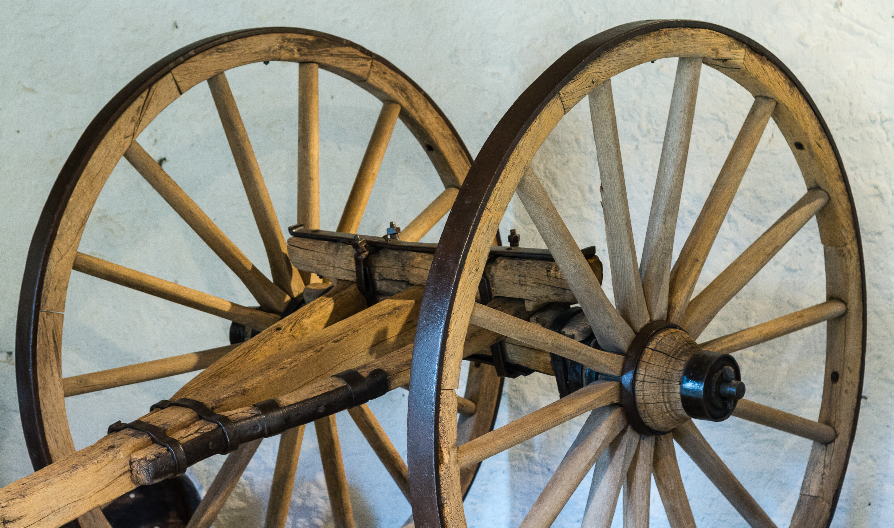 This is a photograph of an architectural monument.It is on the list of cultural monuments of Schwetzingen Trunk wood wagon with wooden spoke wheels.